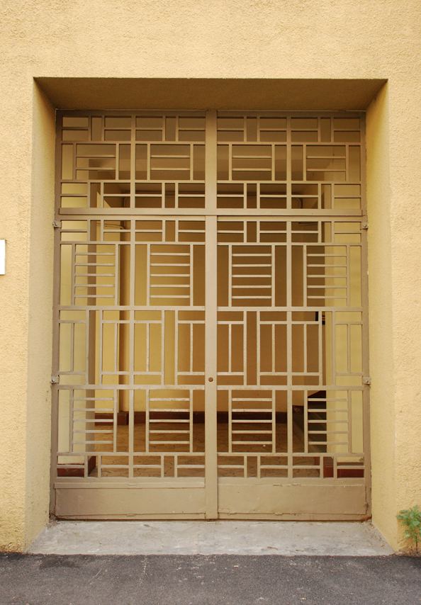 Case per indigenti (Houses for the needy), Florence, Italy. North side. Main Entrance. Gate.